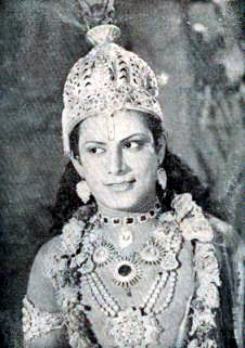 P. V. Narasimha Bharathi (1924-1978), a South Indian Tamil actor